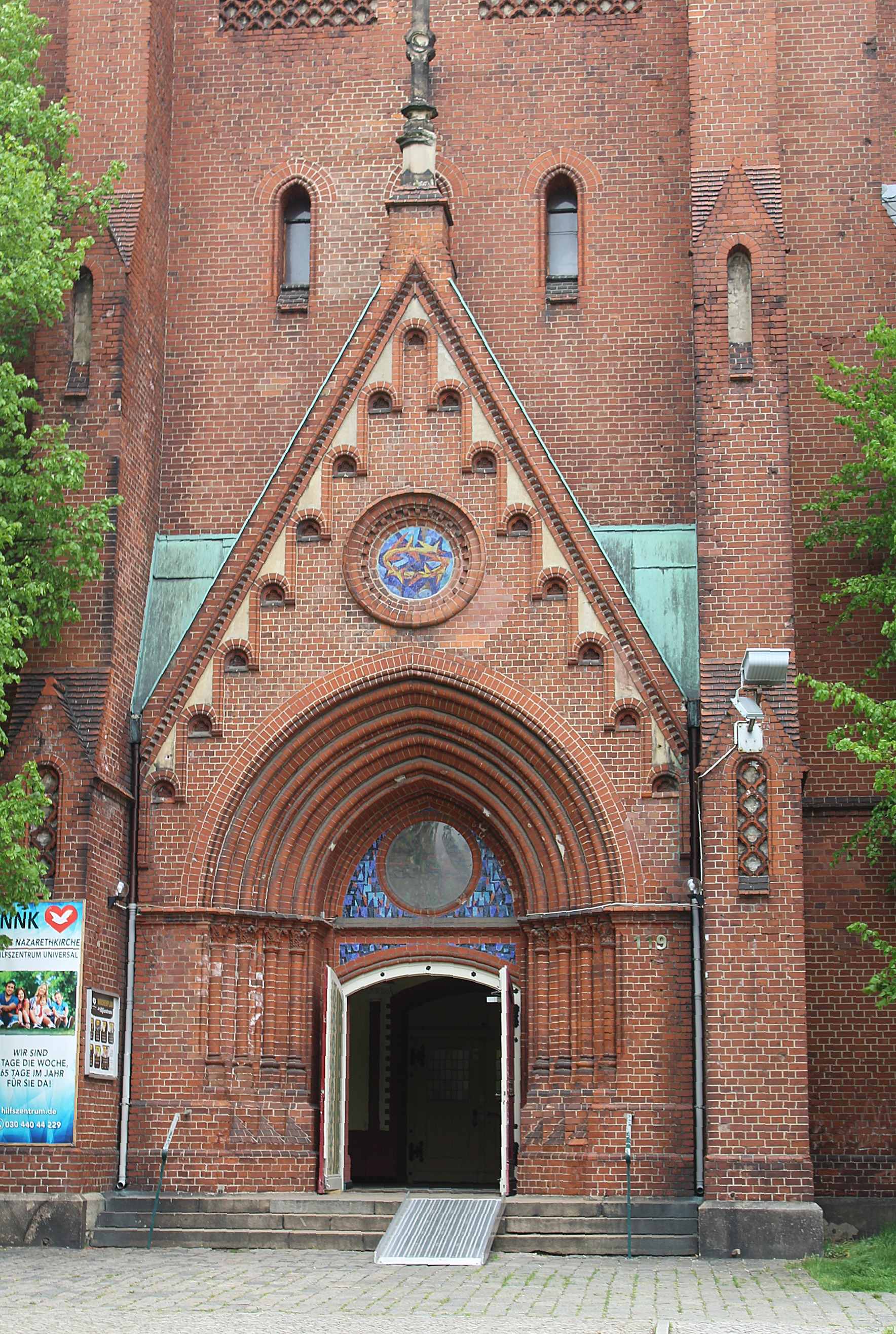 Berlin-Wedding, New Nazareth church, the portal